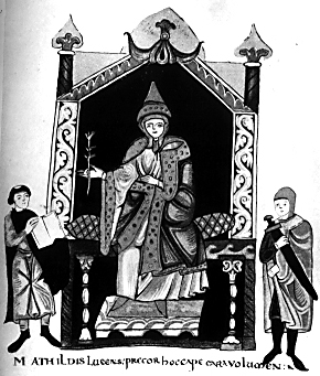 From a manuscript of Domnizo's Vita Mathildis. Matilda, centre, being presented a book (probably the Vita) from a monk (probably Domnizo), left, with a man-at-arms standing guard, right. The words at bottom are Mathildis Lucens.' precor hoc cape cara volumen